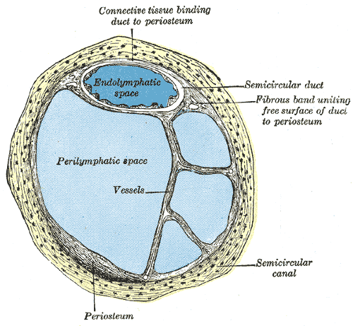 Transverse section of a human semicircular canal and duct (after Rüdinger).